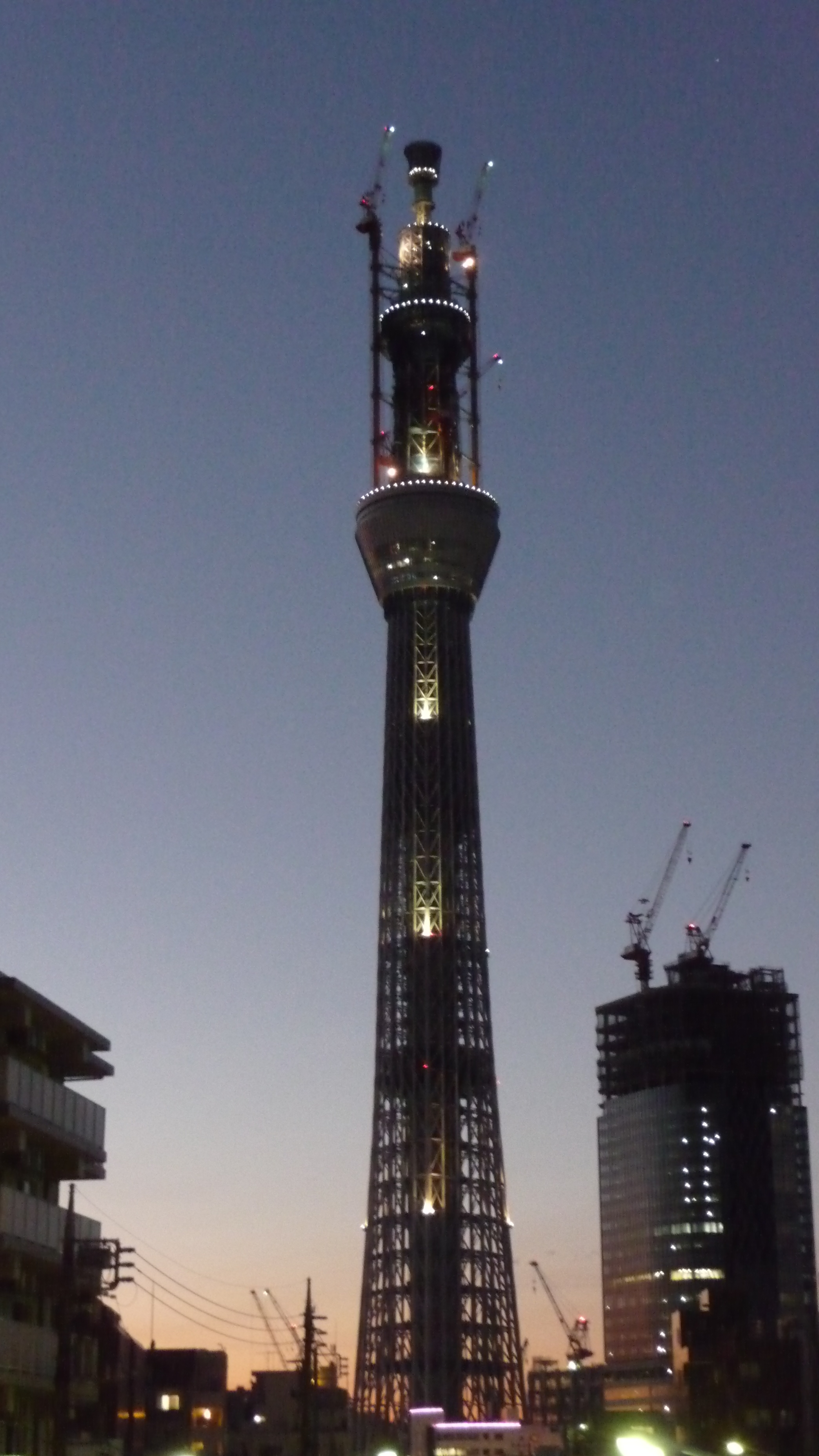 The illumination lights to construct tower are kept on till 8 o'clock PM as Christmas time on 24 and 25 December 2010, as of 539 m.